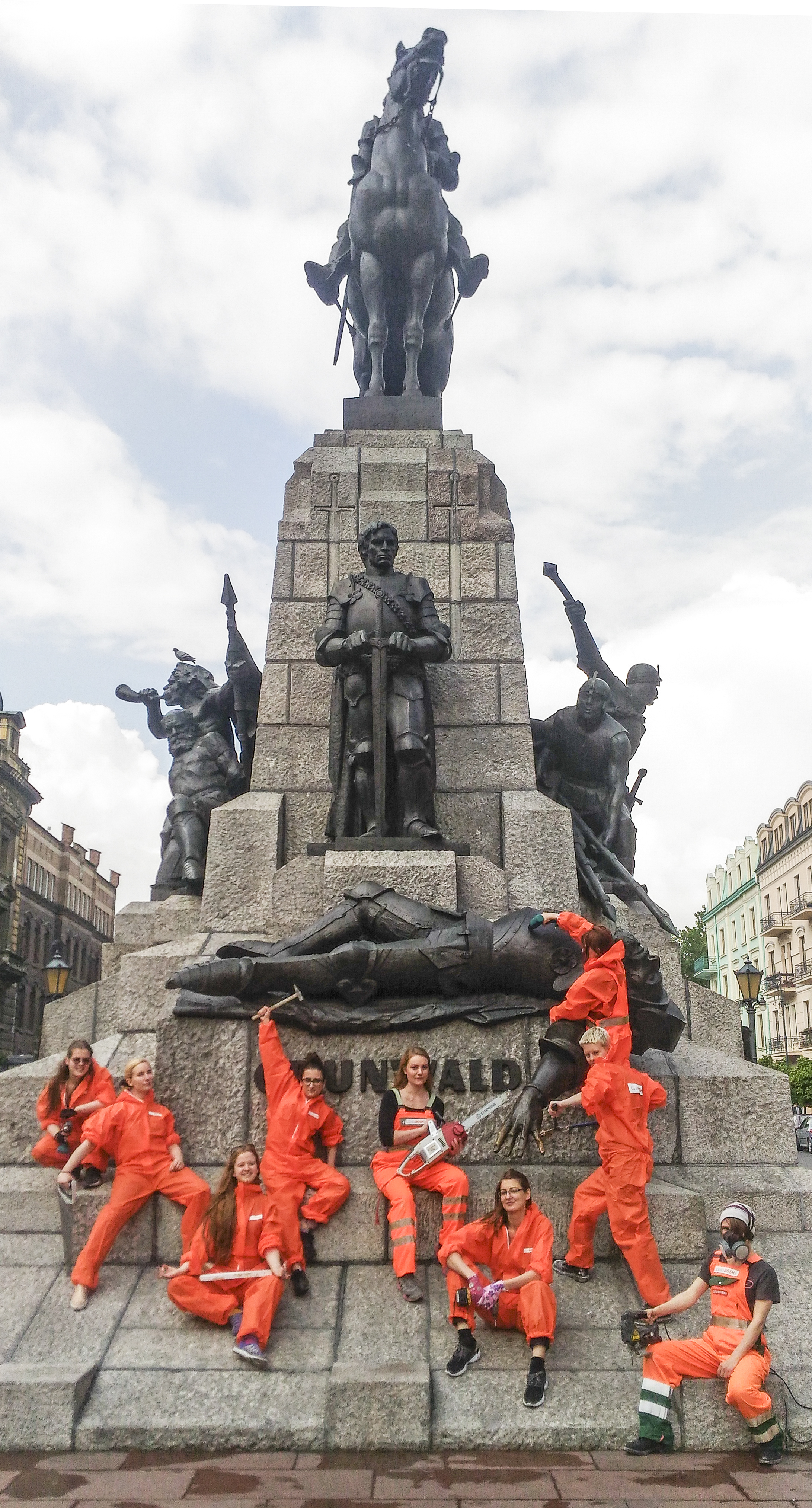 Students of the Sculpture Department of the Academy of Fine Arts in Kraków at the Grunwald Monument in front of the academy.